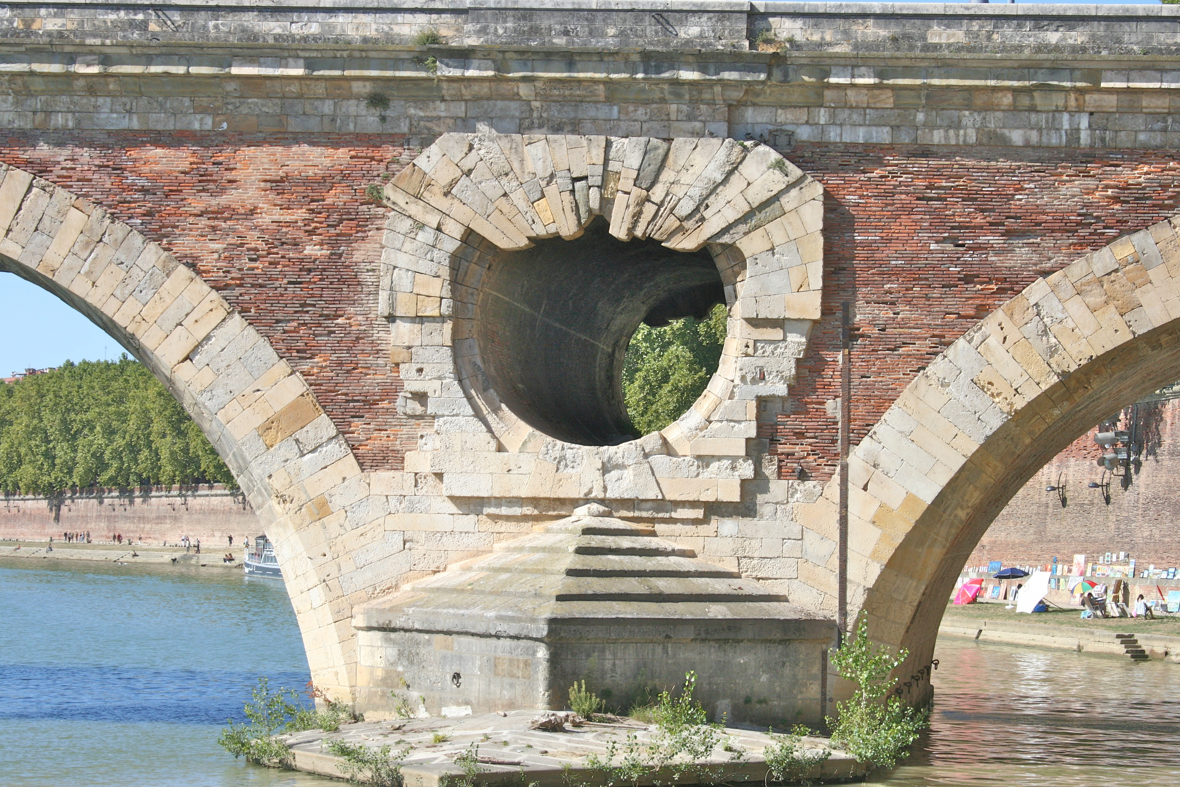 Pont Neuf, in Toulouse, France